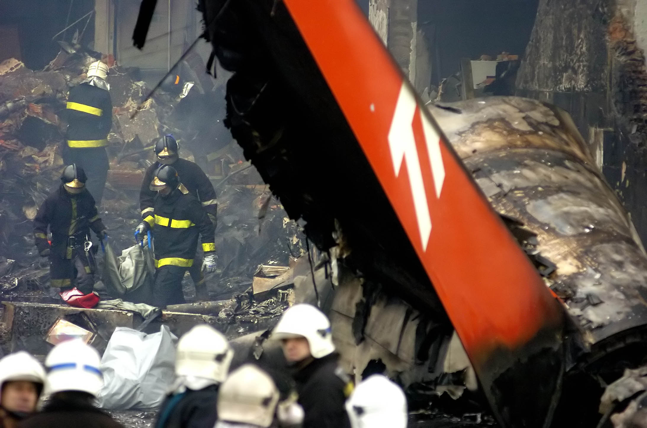 São Paulo - Firefighters retrieve bodies of victims of the TAM Airlines Flight 3054 accident. The Airbus A320 collided into a building at Congonhas Airport and exploded